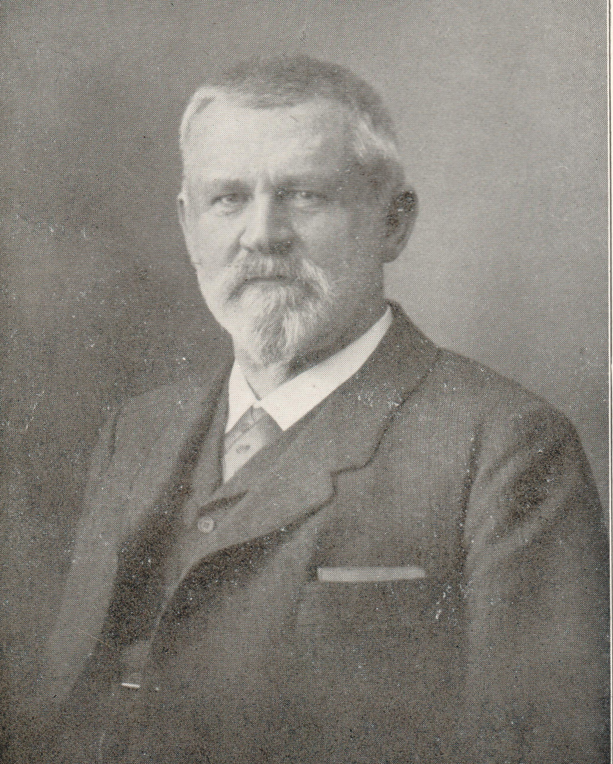 Johann Kohler (also: Hans Kohler, born September 7, 1839 in Egg, died on November 23, 1916 in Schwarzach) was a teacher, painter and politician from Vorarlberg in Austria.